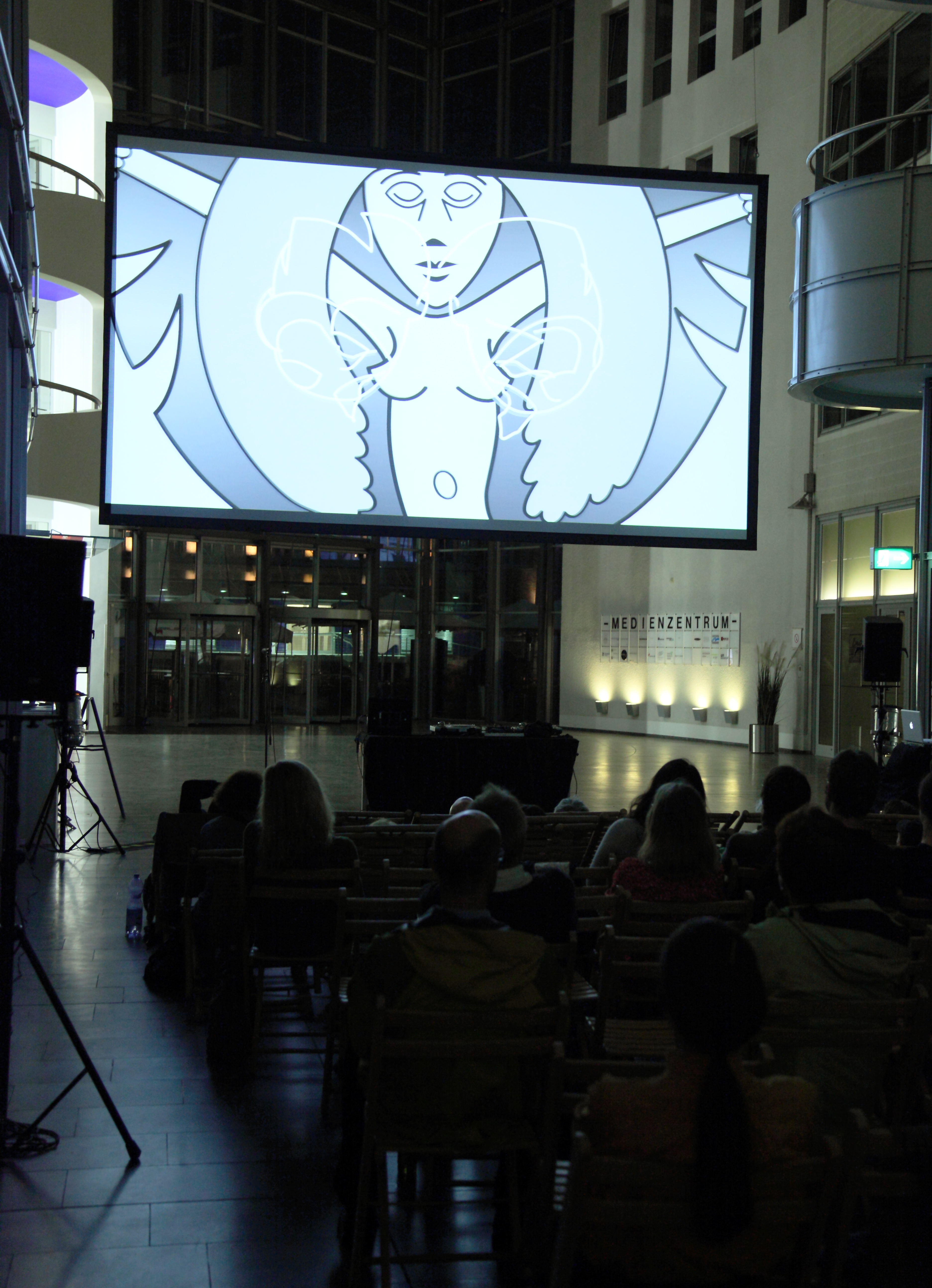 Global Vulva, video art / animation by Myriam Thyes, 2009. HD Pal, b/w, stereo, 6:20, loop. Music: Kristina Kanders. Screening as part of 'Hafenlichtspiele' in Dusseldorf, August 2009.